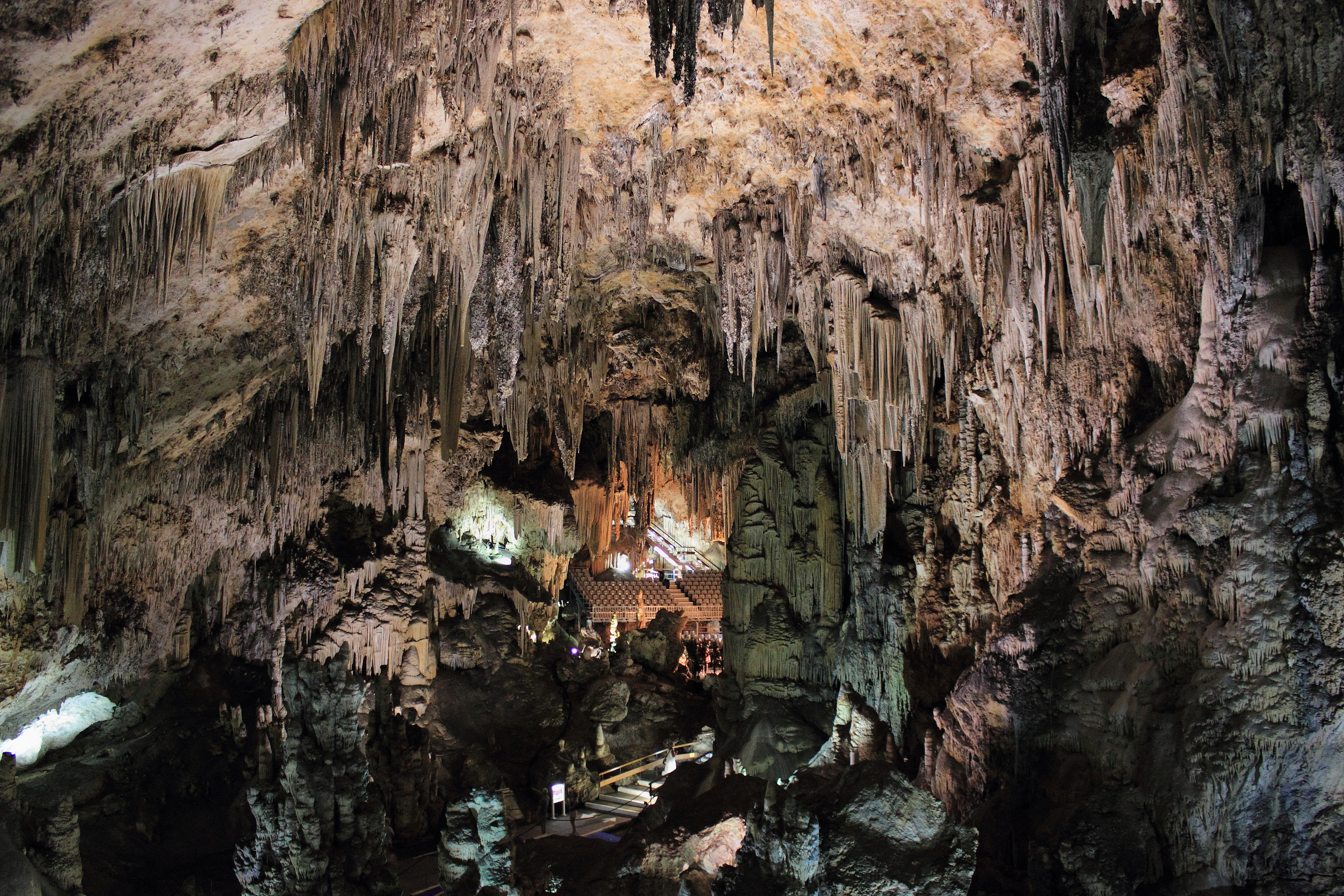 Interior view of Nerja Caves